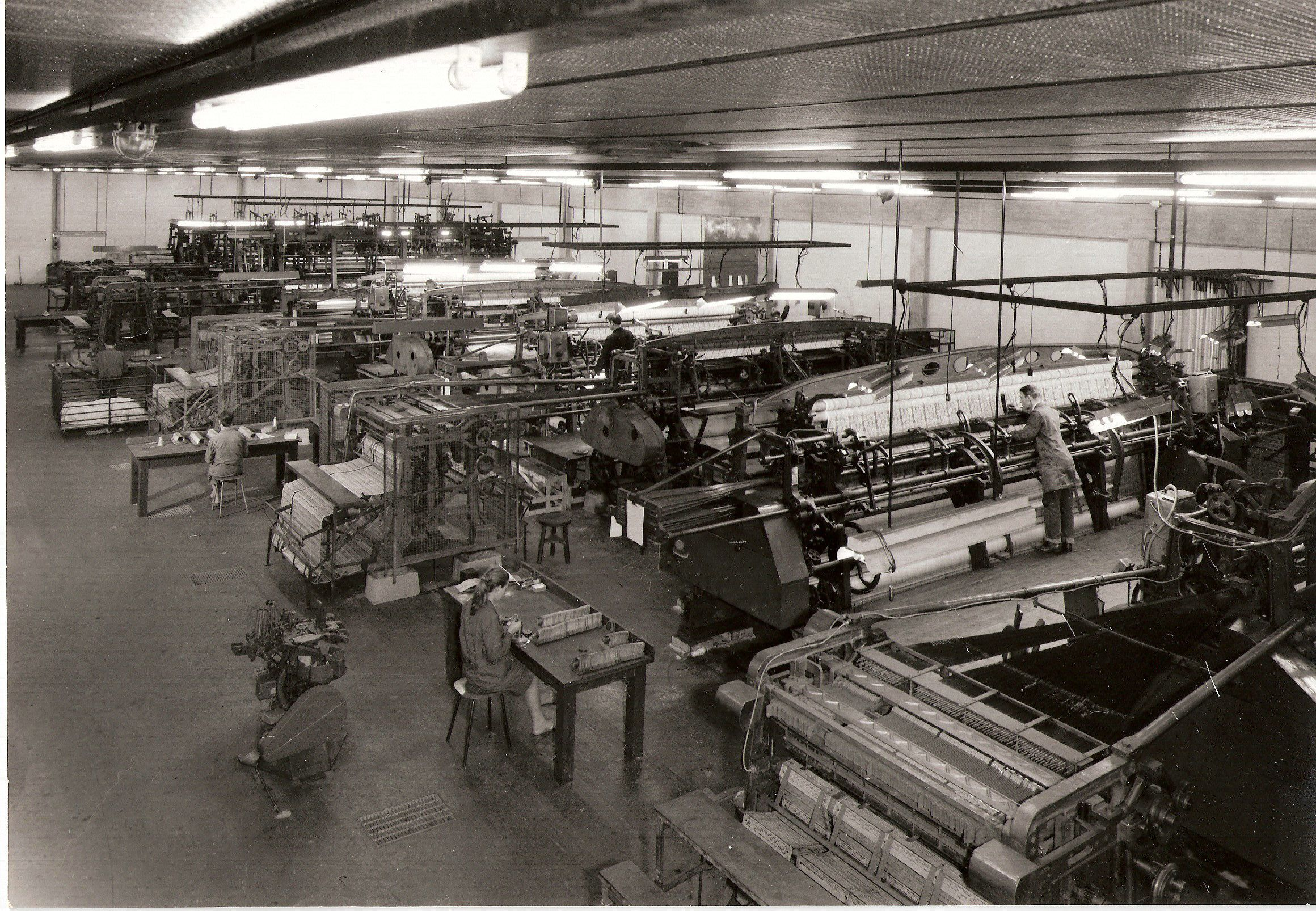 Leavers lace knitting department. SIVA 1968; Shown some jacquard knitting machines